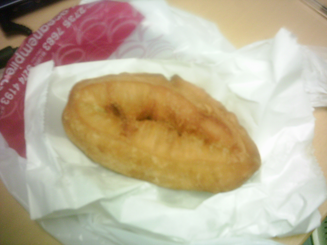 An Ox-tongue pastry that is available in congee restaurants in Hong Kong